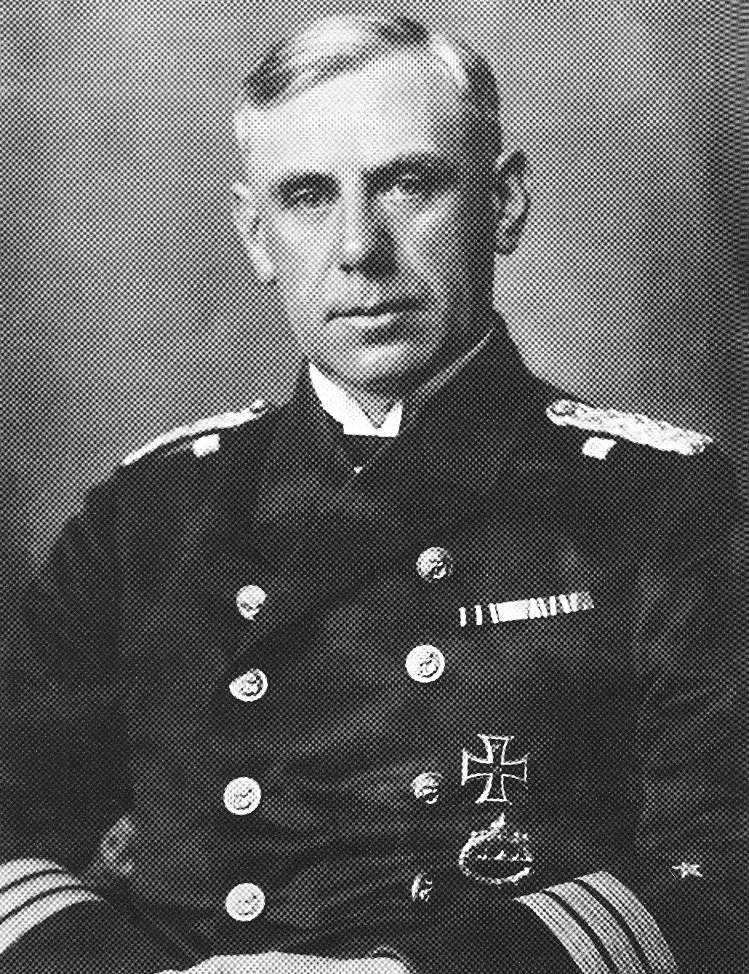 Korvettenkapitän Wilhelm Canaris, chief of the German military intelligence agency Abwehr.